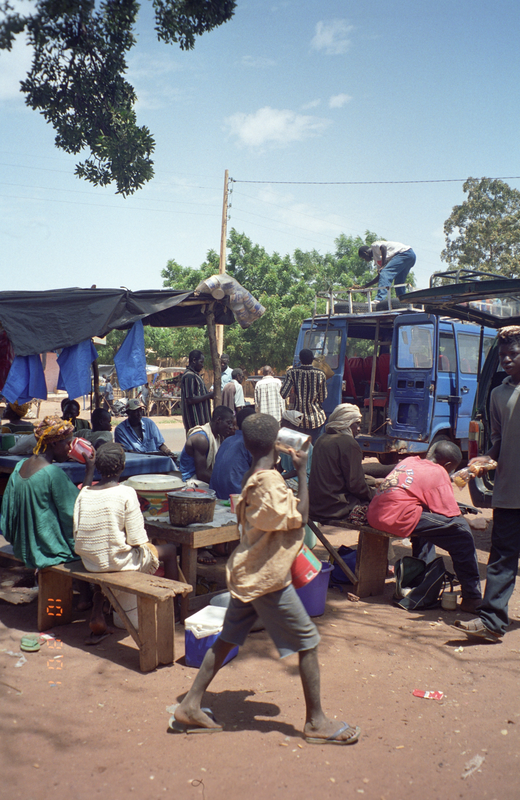 Bus station in Segou, Mali.